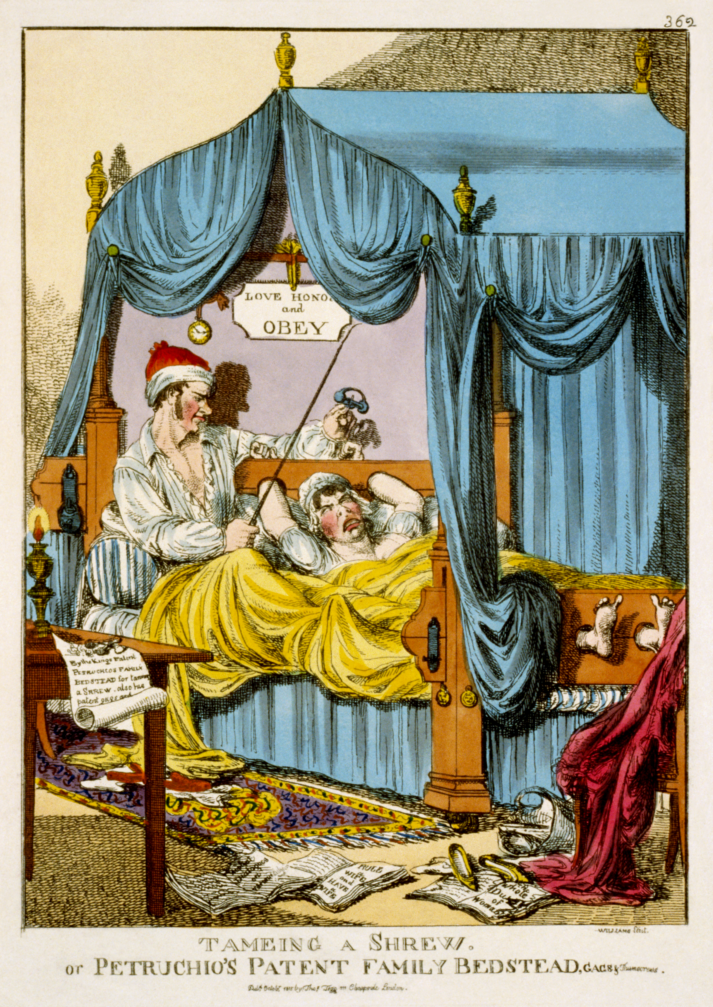 "Tameing a Shrew; or, Petruchio's Patent Family Bedstead, Gags & Thumscrews" - a deeply misogynist satirical caricature by "Williams", referencing Shakespeare's The Taming of the Shrew. The man's wife is forced into complete subjugation to the husband, and a sign hangs above her, quoting a line from the wedding service of the time: "Love, honour, and OBEY". See The Satirical Gaze by Cindy McCreery, page 153. From Thomas Tegg's Caricature Magazine, 1815.